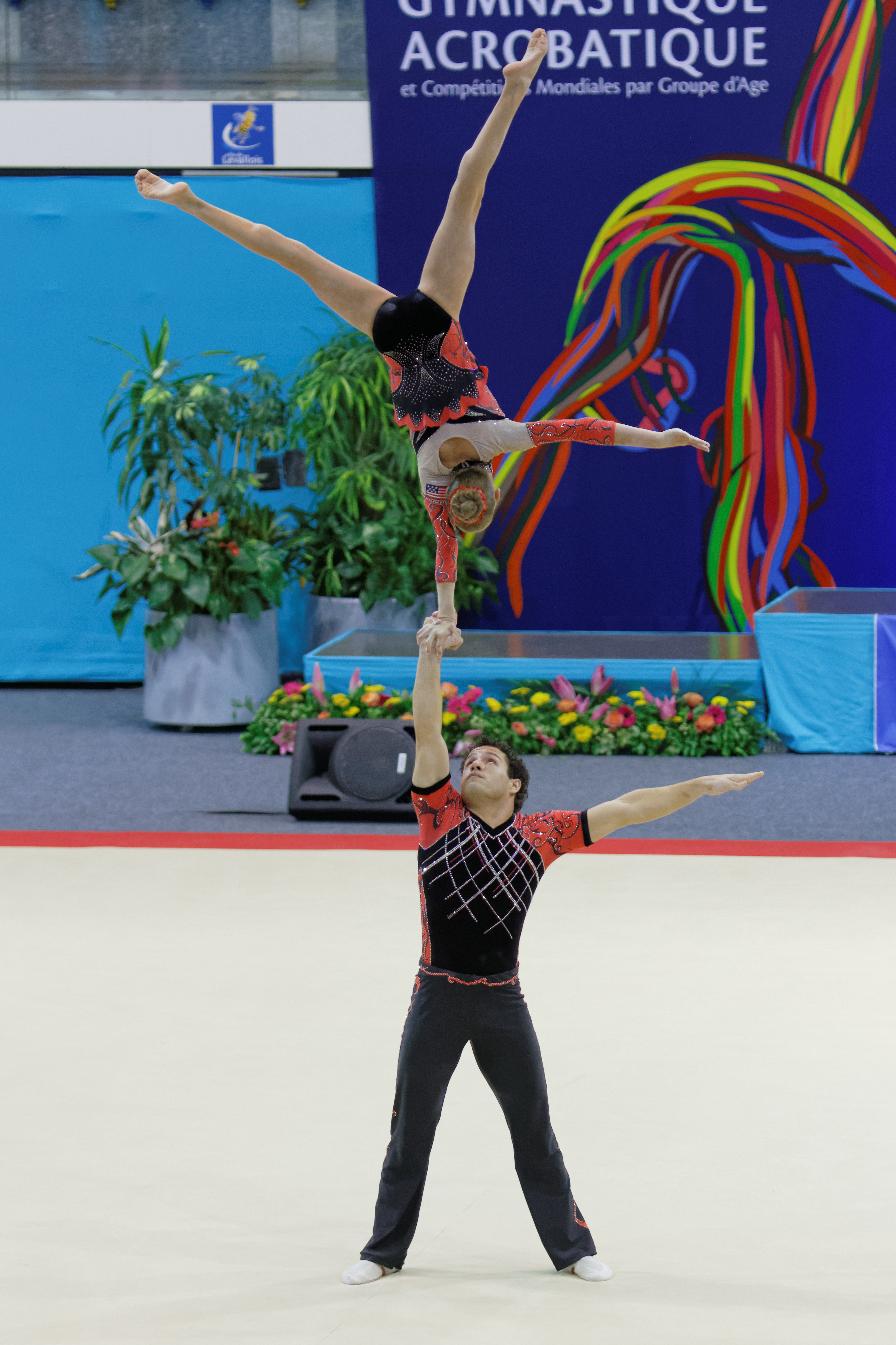 2014 Acrobatic Gymnastics World Championships, 10th-12 July, Levallois-Perret, France. Finals: mixed pair. USA.